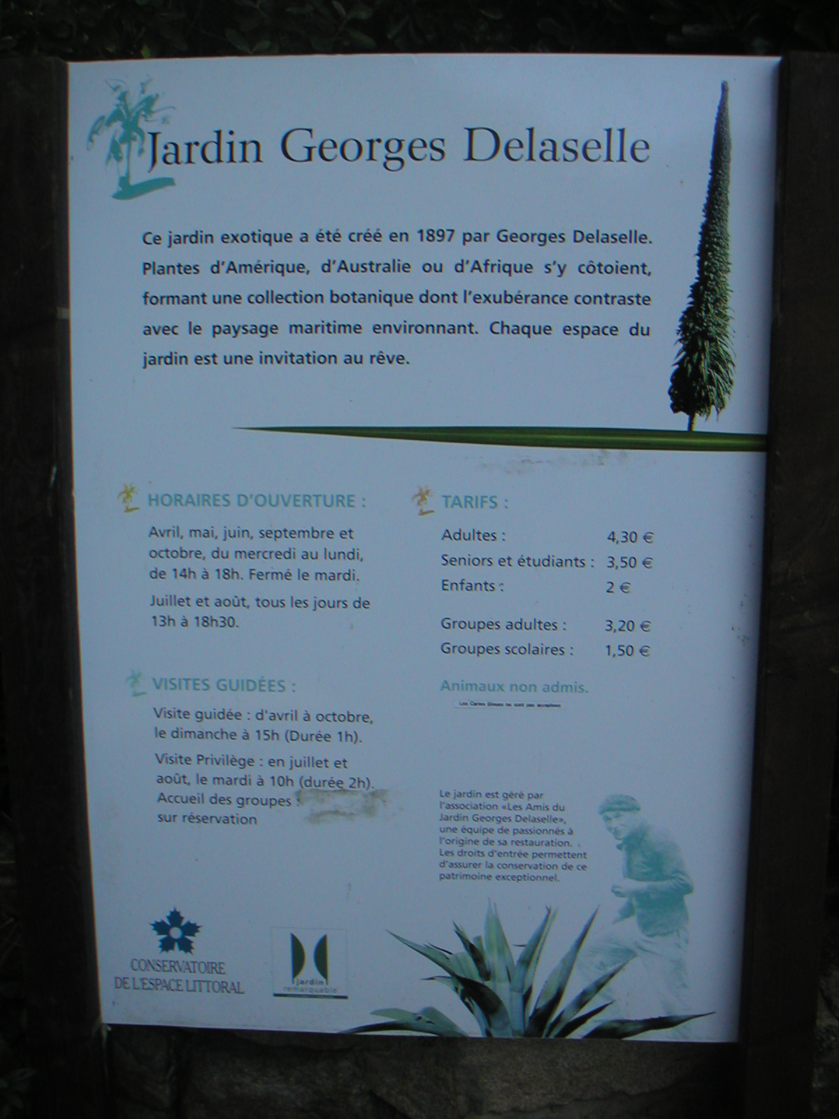 Entrance of the Georges Delaselle botanical garden on the Batz Island